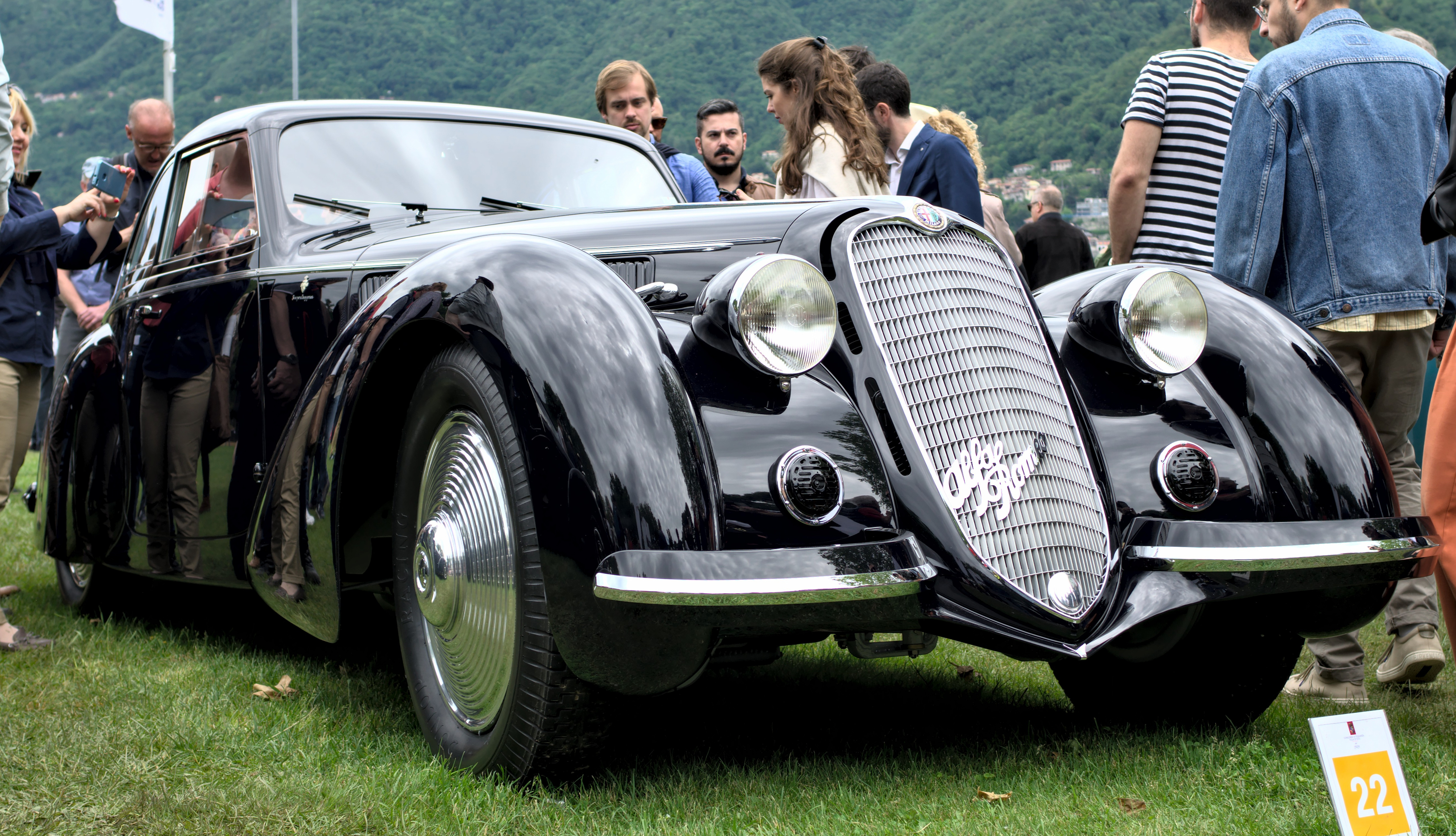 Alfa Romeo 2900B, the winner of the 2019 Coppa d'Oro and Trofeo BMW Group at Concorso d'Eleganza Villa d'Este. Picture taken at Villa Erba.